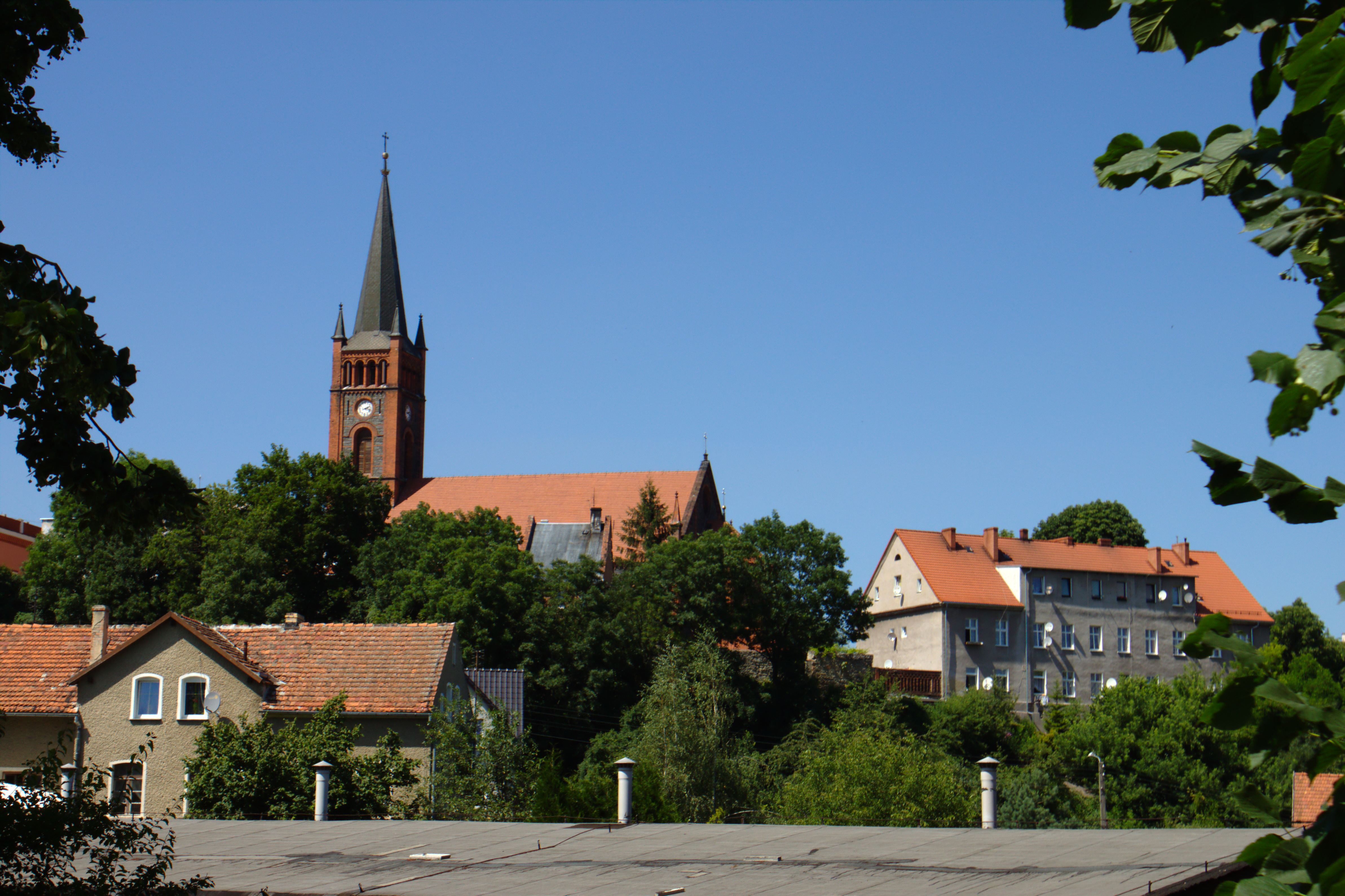 View of the central part of the town of Niemcza from a distance, Poland